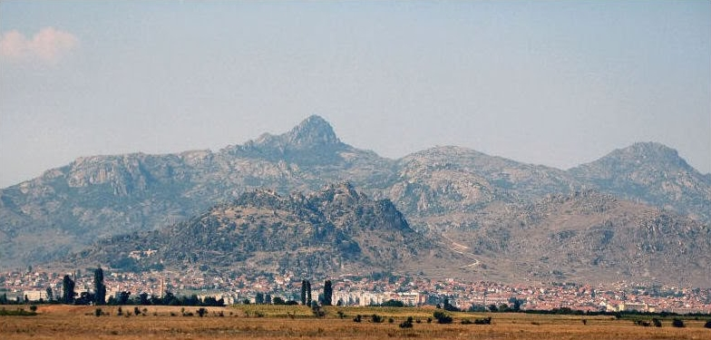 Prilep and Marko's Towers